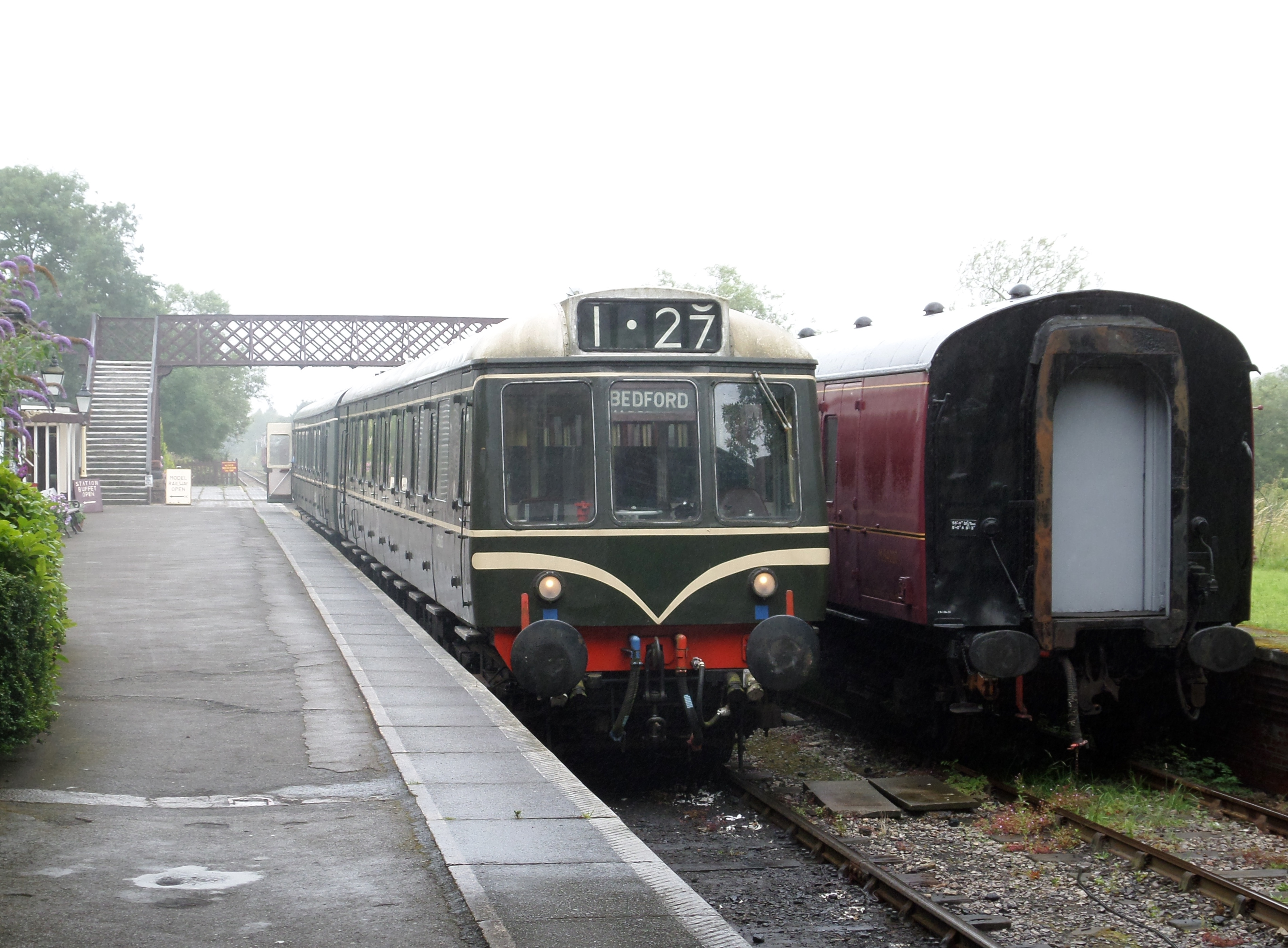 Butterley railway station, Midland Railway, Ripley, Derbyshire. DMU at platform.